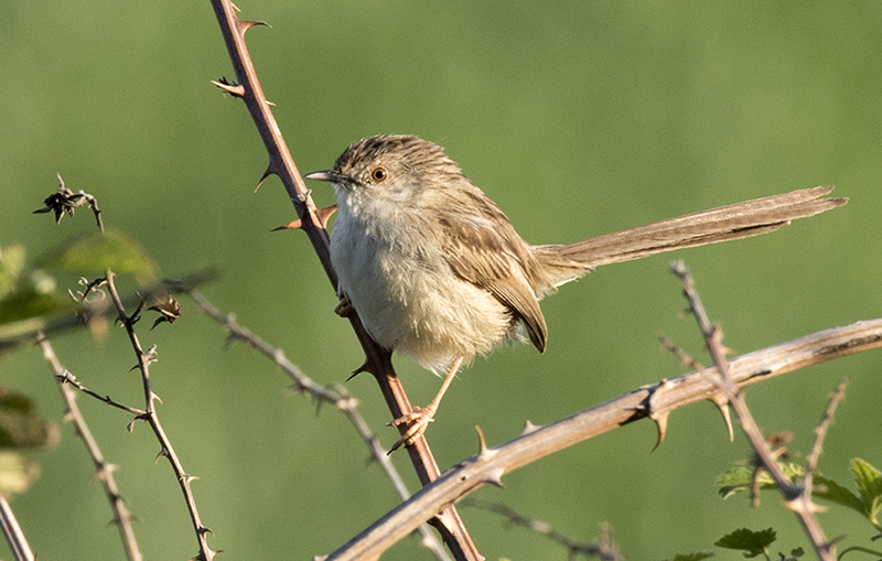 Graceful prinia (Prinia gracilis). Balcalı, Adana - Turkey.